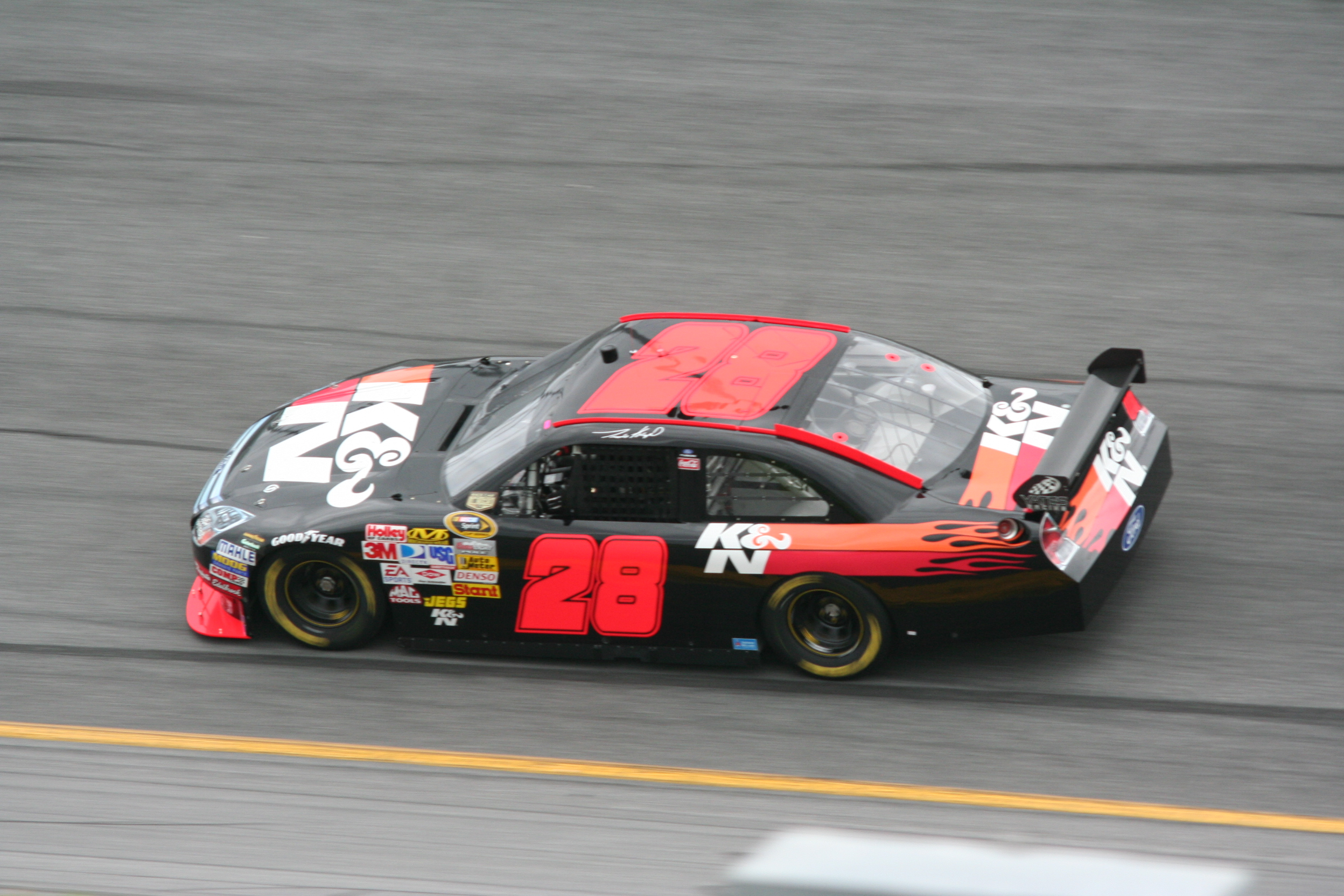 Shot by The Daredevil at Daytona during Speedweeks 2008Travis Kvapil K&N Filters Ford Fusion